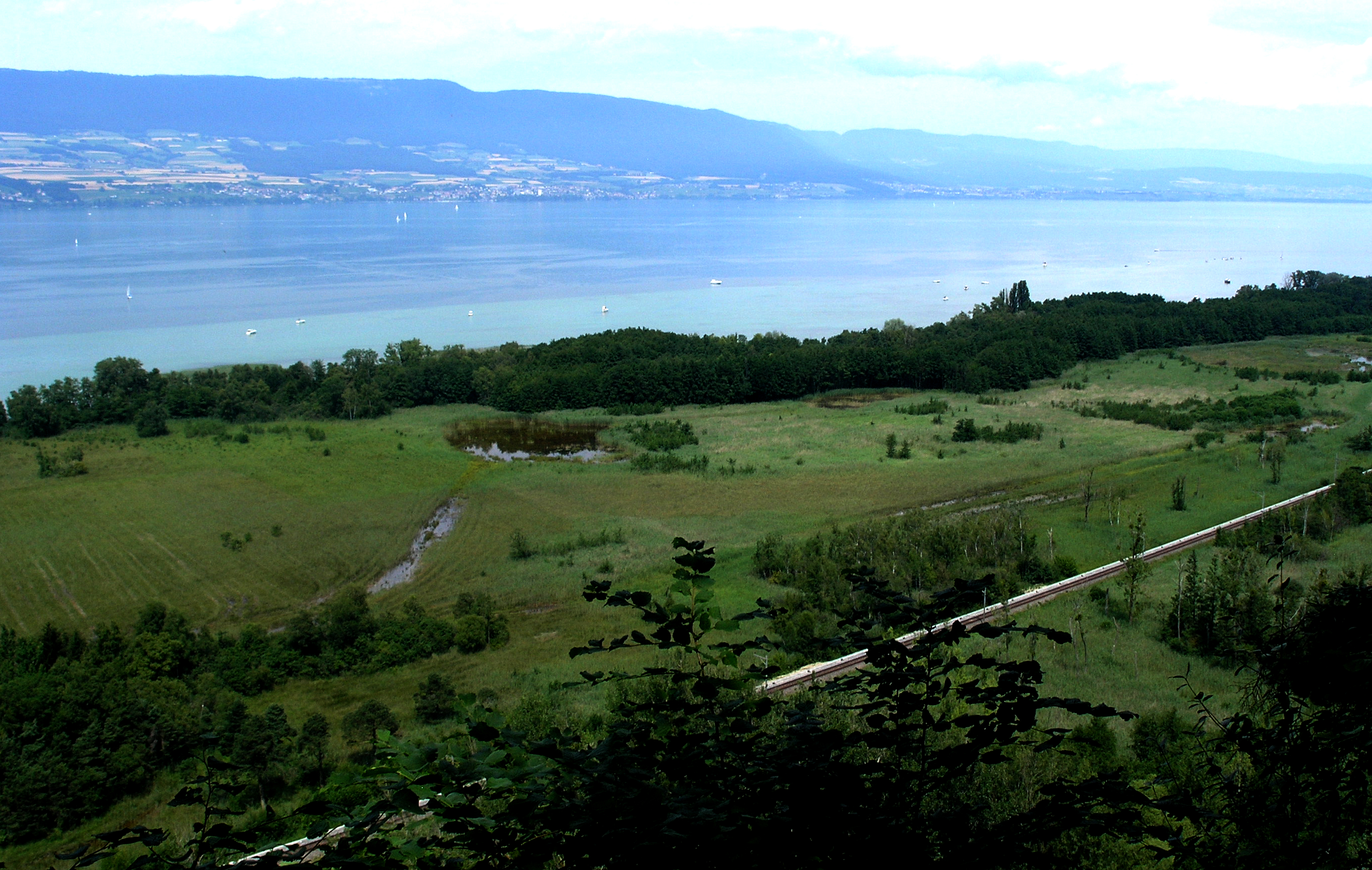 Grande Cariçaie at Cheyres FR, southern shore of Lake Neuchâtel, Switzerland